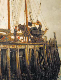 ‘Unloading coal at a wood jetty – Holy Island’ by Ralph Headly